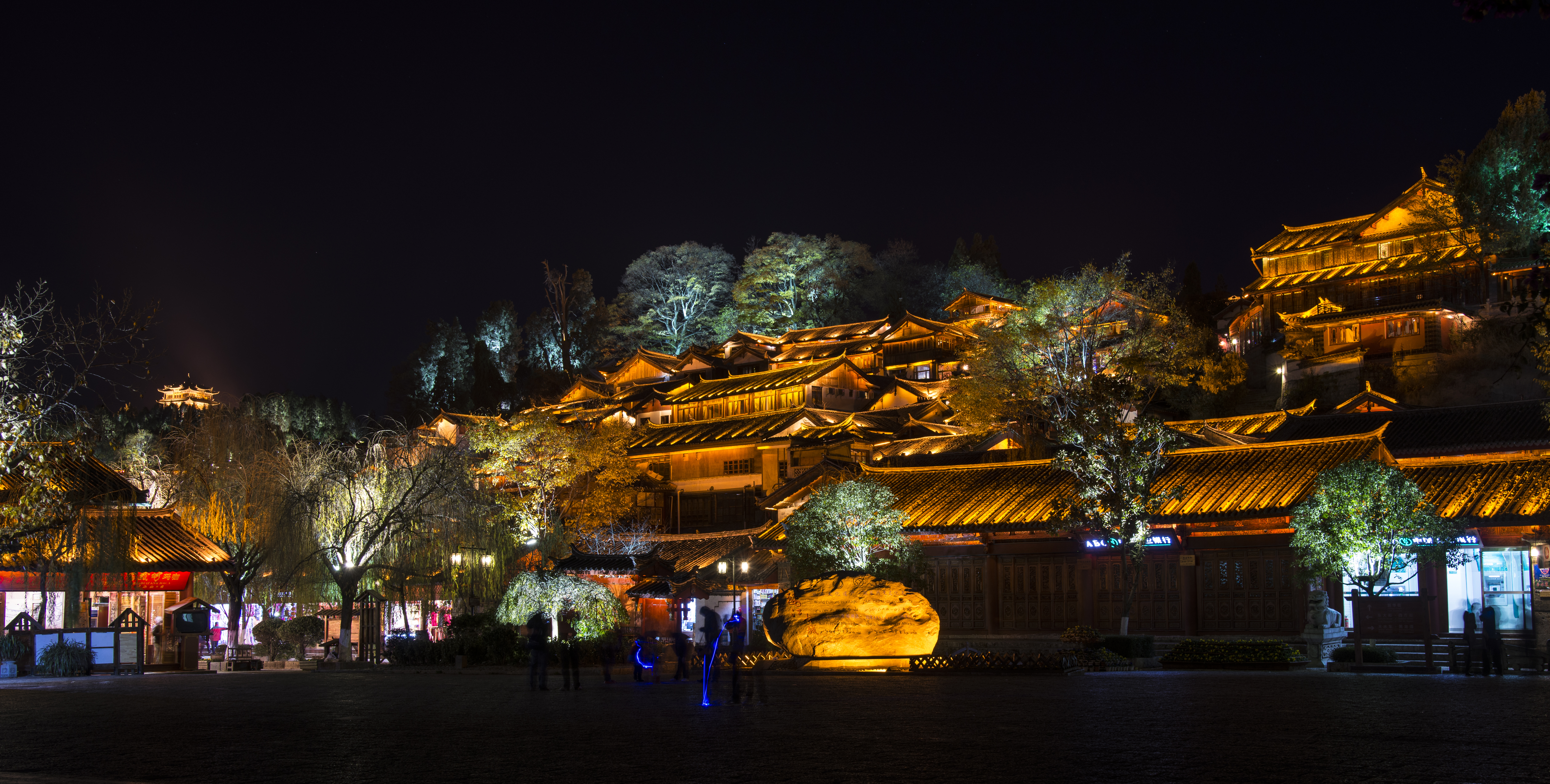 old town of lijiang yunnan china 2012 night unesco world heritage site